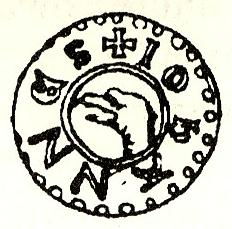 Coin of King John I of Sweden; Place: Sweden